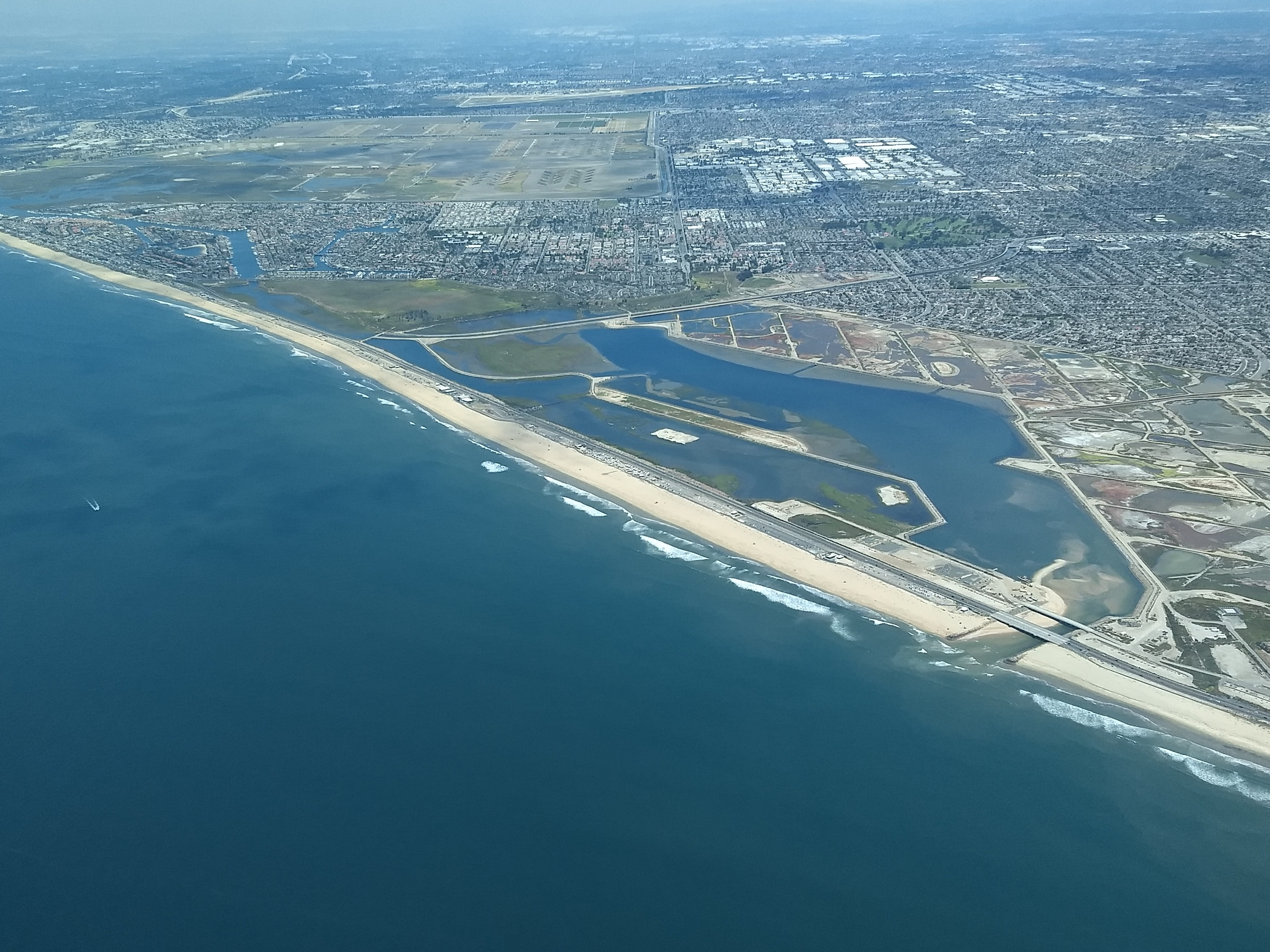 View of the Bolsa Chica Ecological Reserve taken with a Motorola cell phone from the window of a Cessna 182RG flying along the coast at 3,500 ft. MSL.